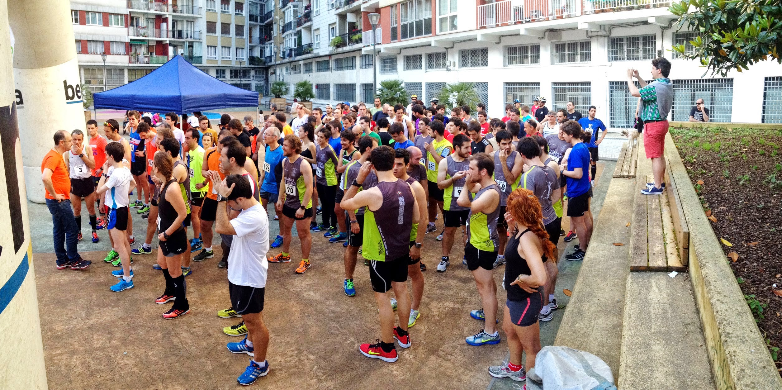 ABkrossa-ko irteera 2014ean